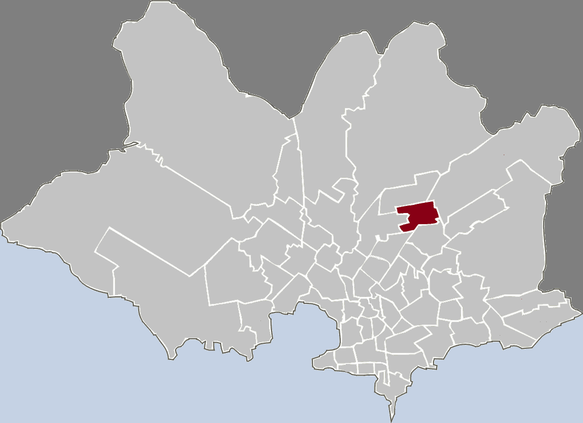 Map highlighting the given barrio in Montevideo.